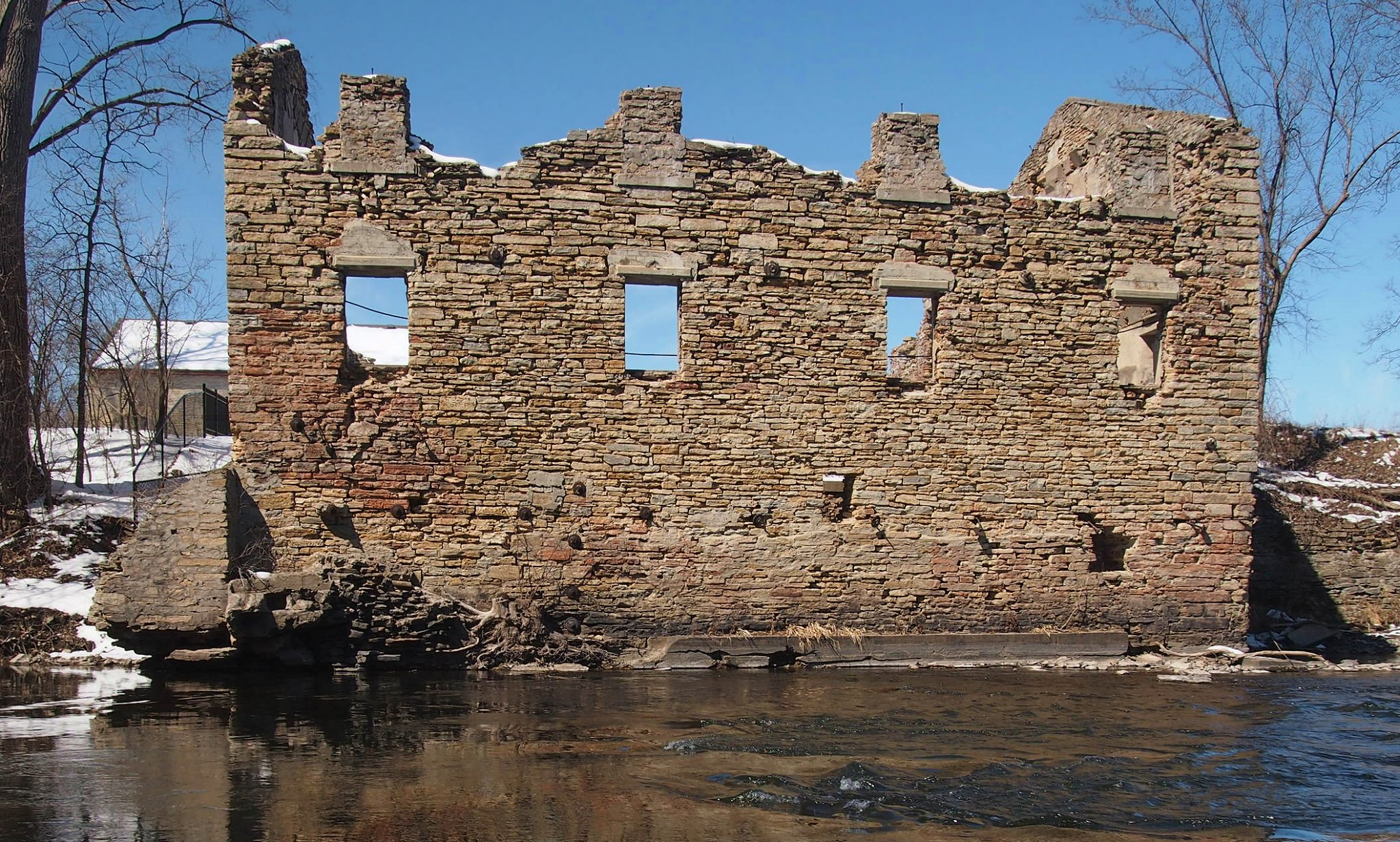 Ruins of the 1870 Archibald Mill on the Cannon River, Dundas, Minnesota, USA. Viewed from the southeast.